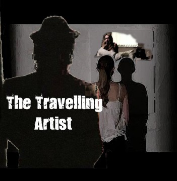 Artwork created for The Travelling Artist